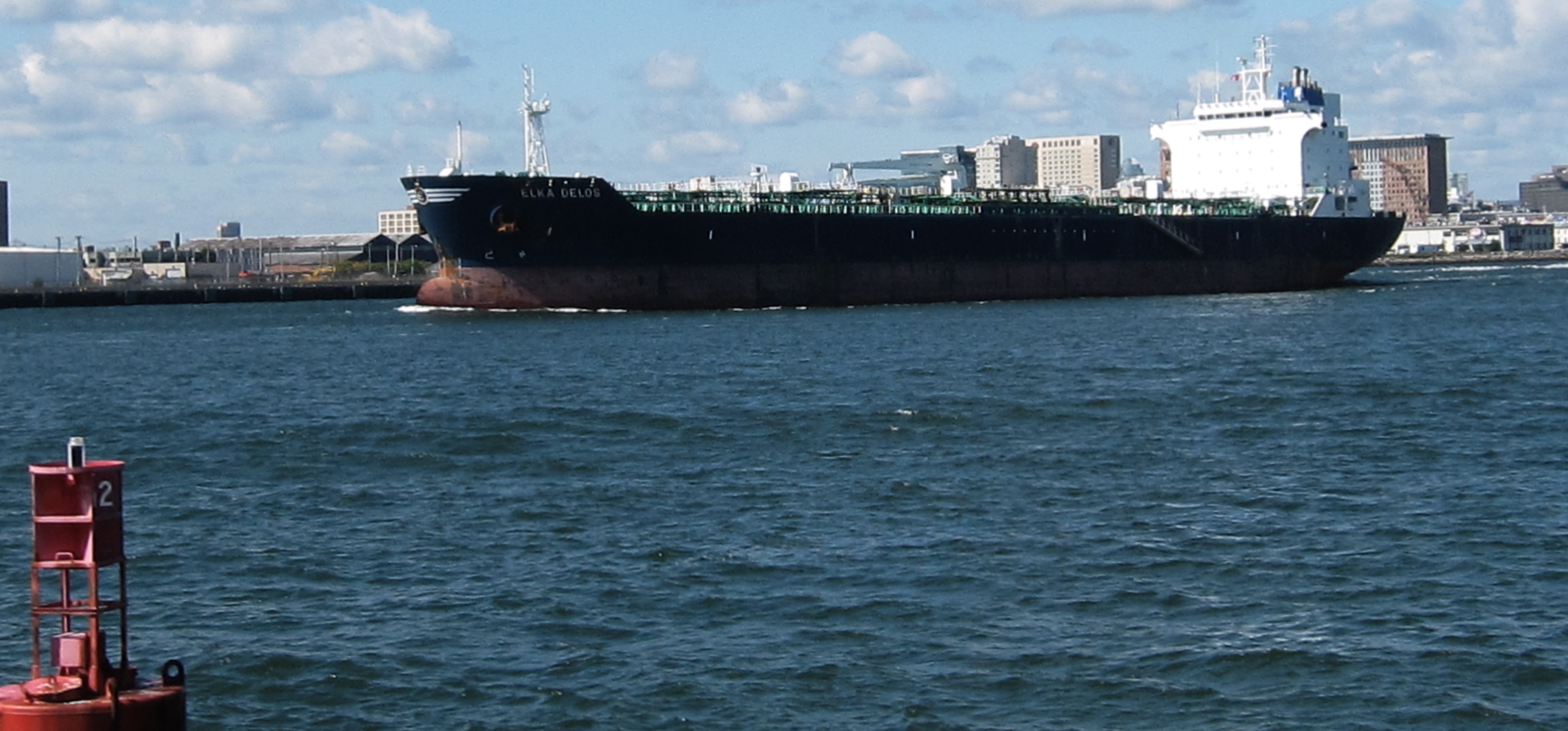 Boston Harbor with the Elka Delos IMO Number: 9259290 MMSI Number: 240415000 Callsign: SYAR Length: 183.0m Beam: 32.0m